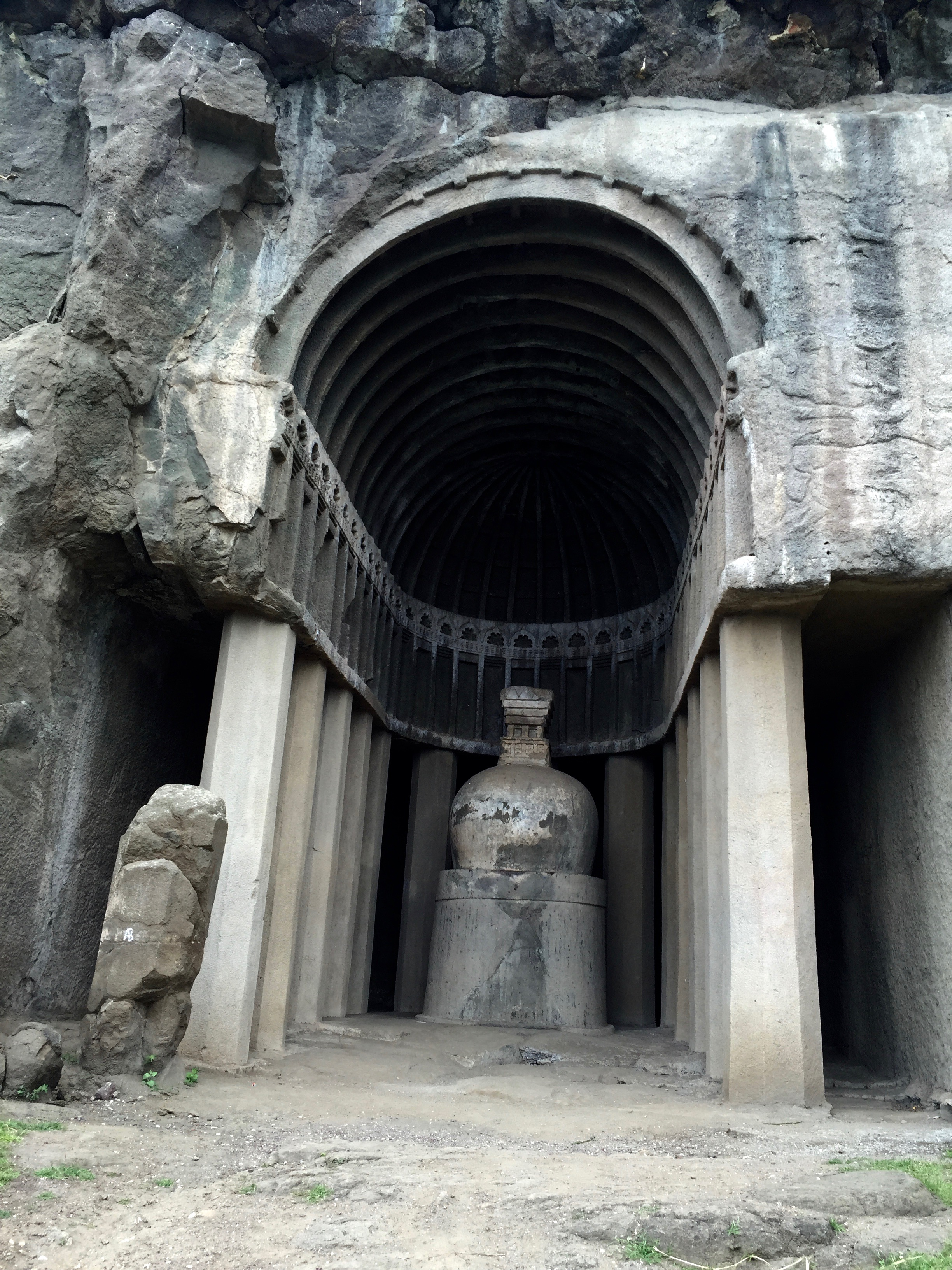 The Aurangabad caves are twelve rock-cut Buddhist shrines carved in 6th-7th century CE. They are located on a hill running roughly east to west, close to the Bibi Ka Maqbara in Aurangabad, Maharashtra. These show Hinayana, Mahayana and Vajrayana styles of artwork. Notable are goddesses carved with the Buddha, whose iconography is close to those found in Shaktism tradition of Hinduism.